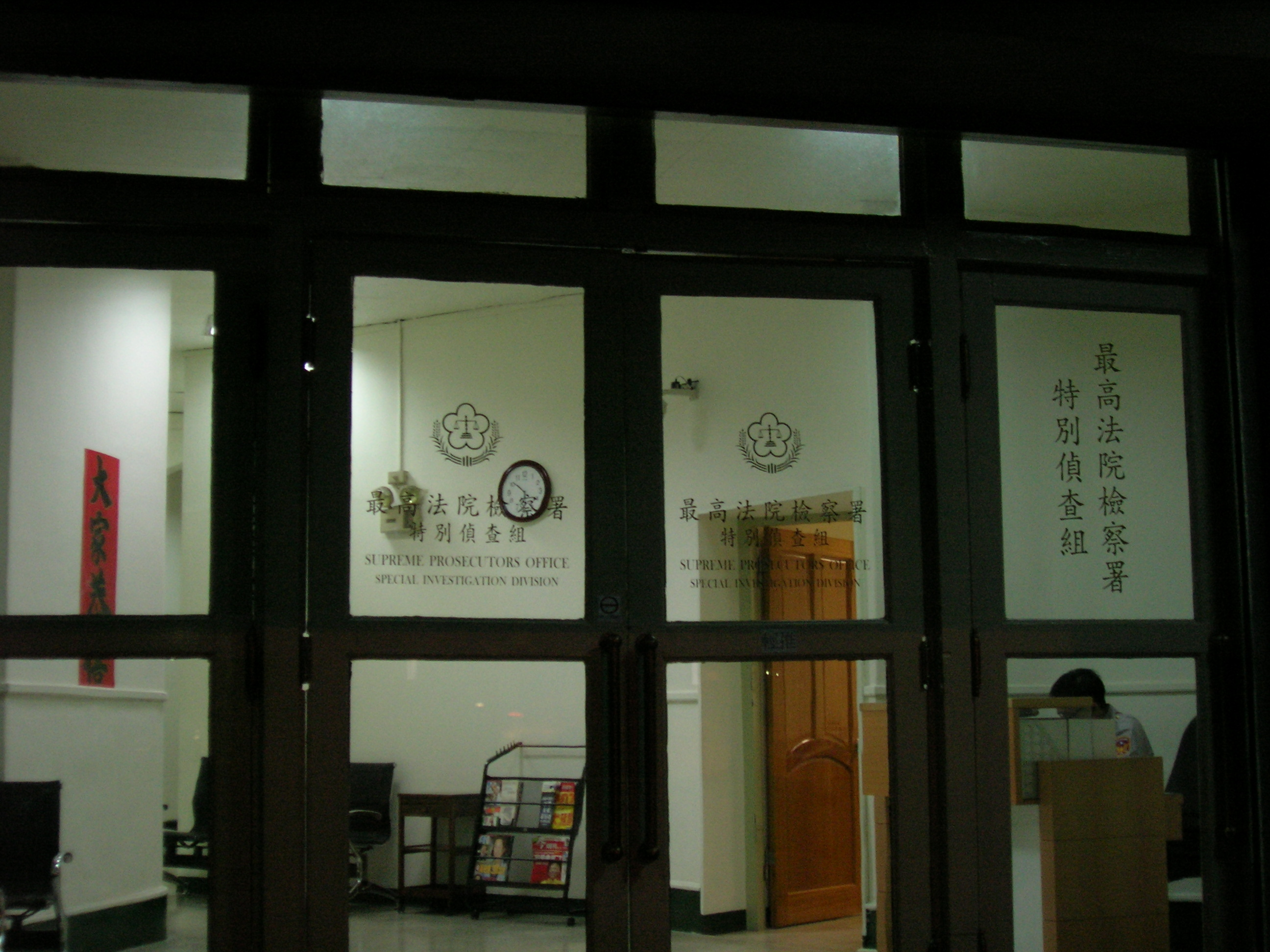 The office of Special Investigation Division, Supreme Prosecutors Office, Republic of China (Taiwan).